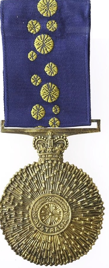 Medal of the Order of Australia